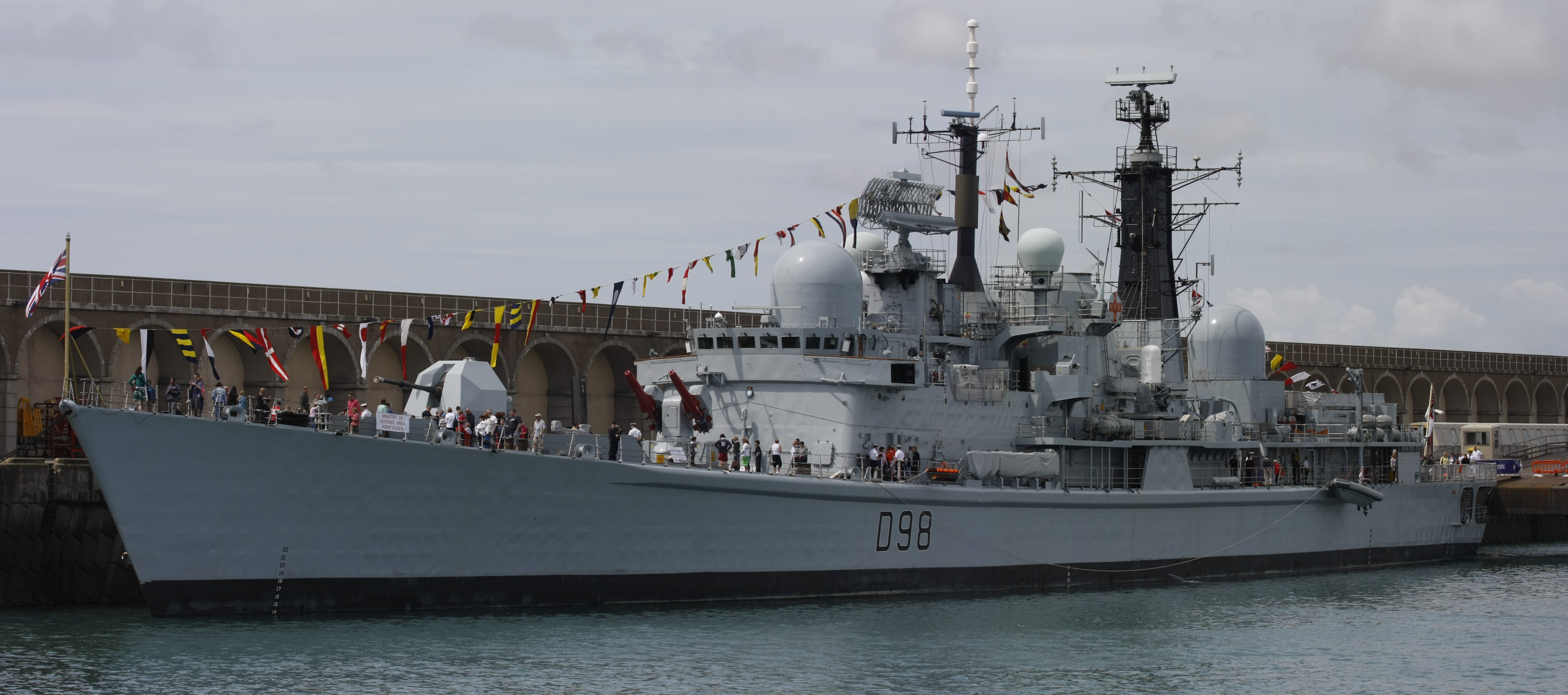 HMS York (D98) destroyer located at St. Helier, Jersey, Channel Islands for the Jersey Boat Show 2009.